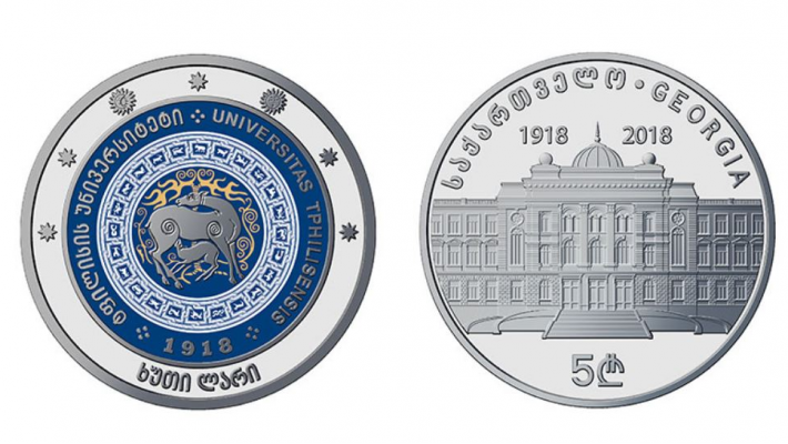 TSU Silver Coin